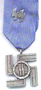 The Waffen-SS Long Service Award for twelve years of service.